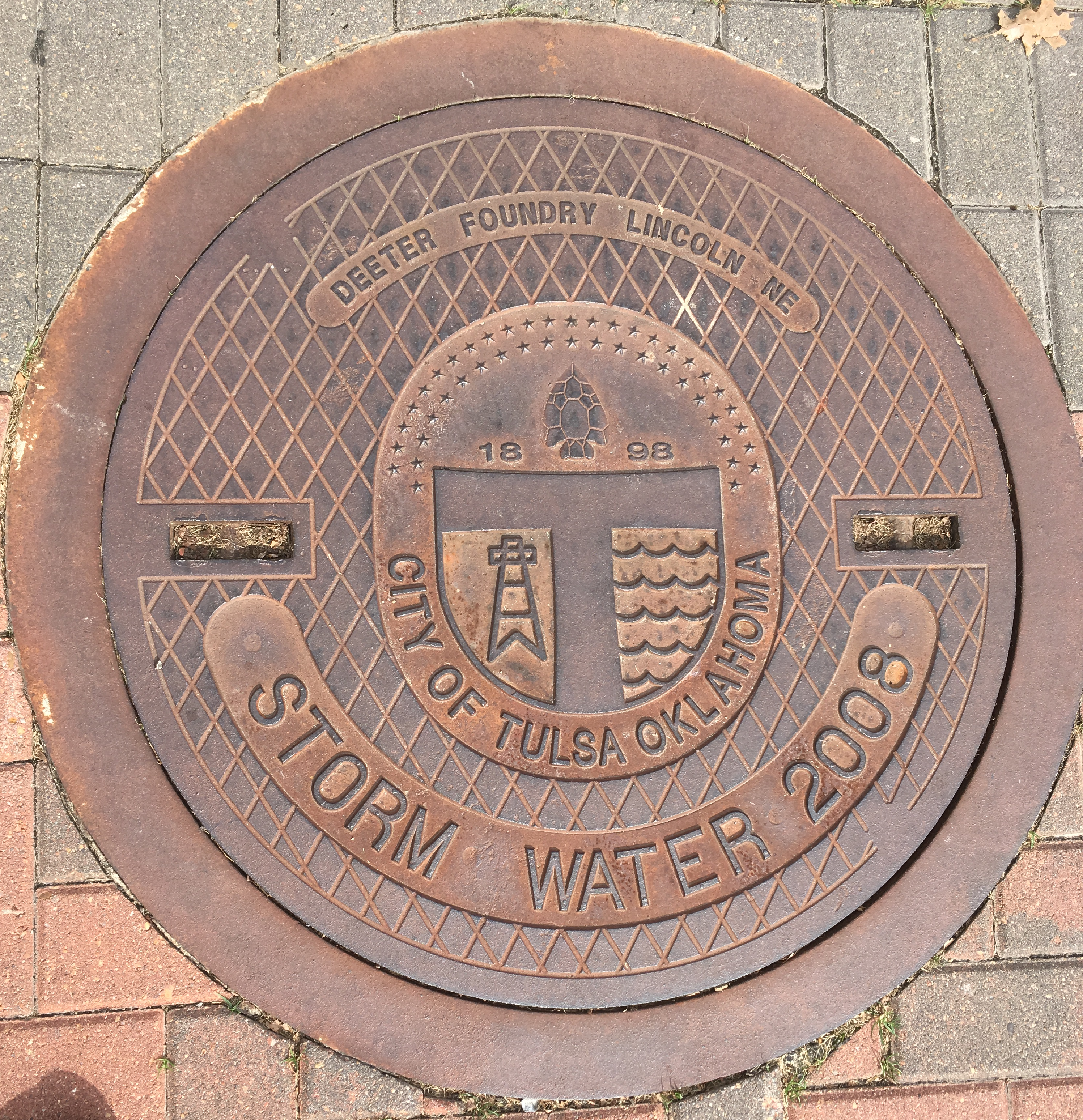 Manhole cover from Tulsa, Oklahoma. Contains the city seal and identification of foundry, Deeter Foundry of Lincoln, Nebraska